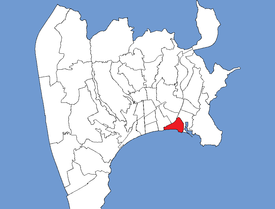 Location of the neighbourhood Vielle Ville in Nice